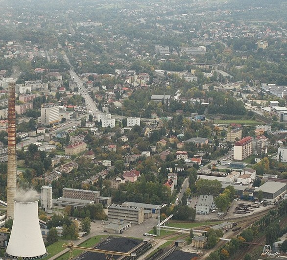 Aerial photography of Leszczyny - district of Bielsko-Biała, Poland.